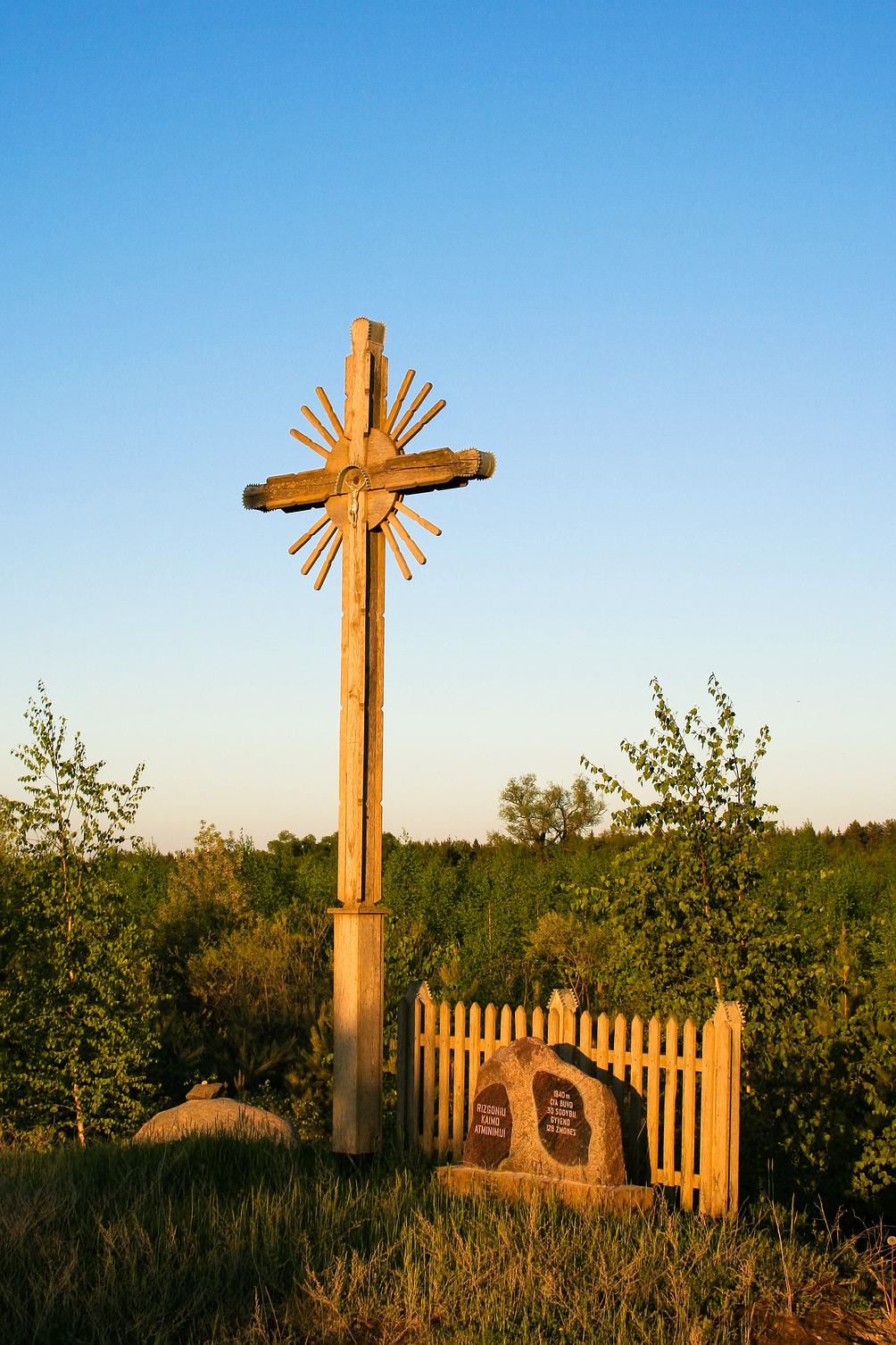 A cross in Rizgonys, a destroyed village in Lithuania. Prior to the resettlement it was inhabited by 128 people.